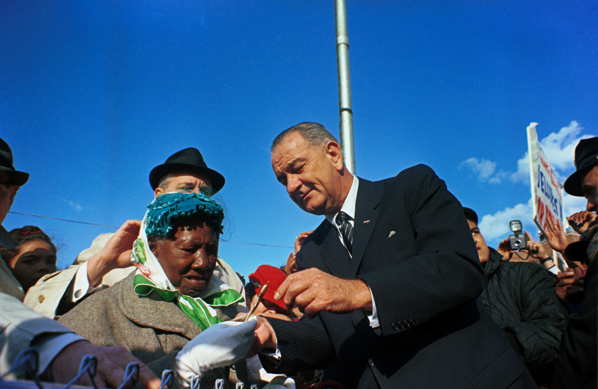 President Lyndon B. Johnson signs an autograph